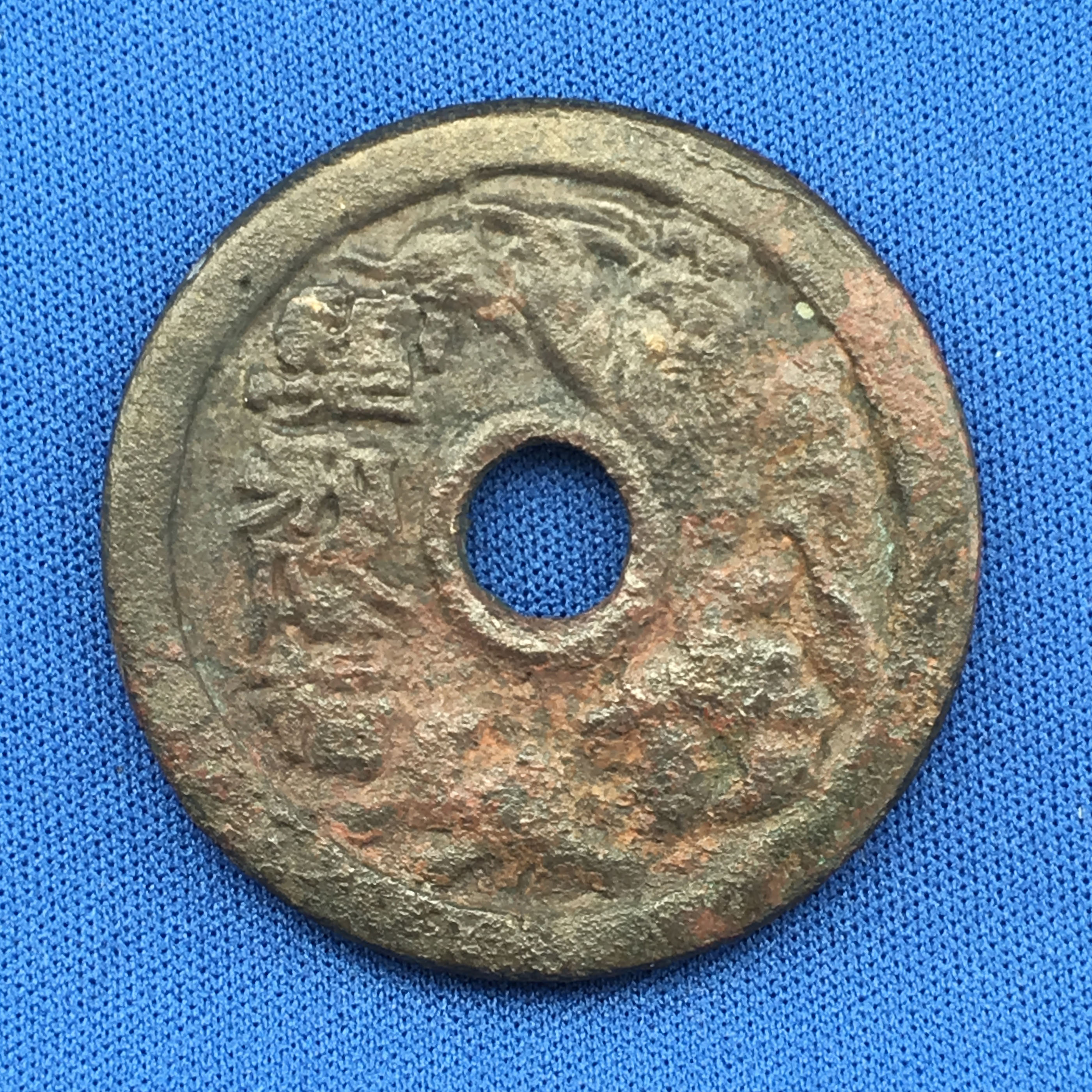 Amulet coin of China